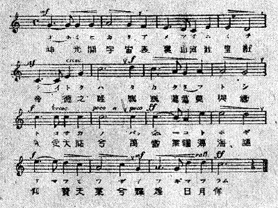 Sheet music of the national anthem of Manchukuo in 1942